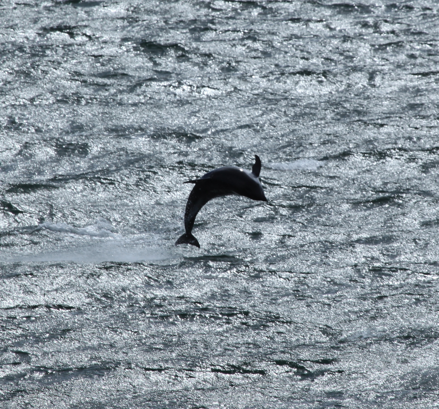 Near Stanley, Falkland Islands.